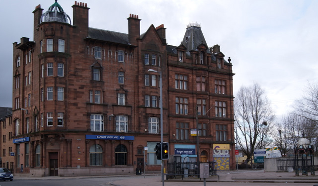 Water Row. A prominent building at the corner of Water Row and Govan Road. See the fountain to the right here 1756721.